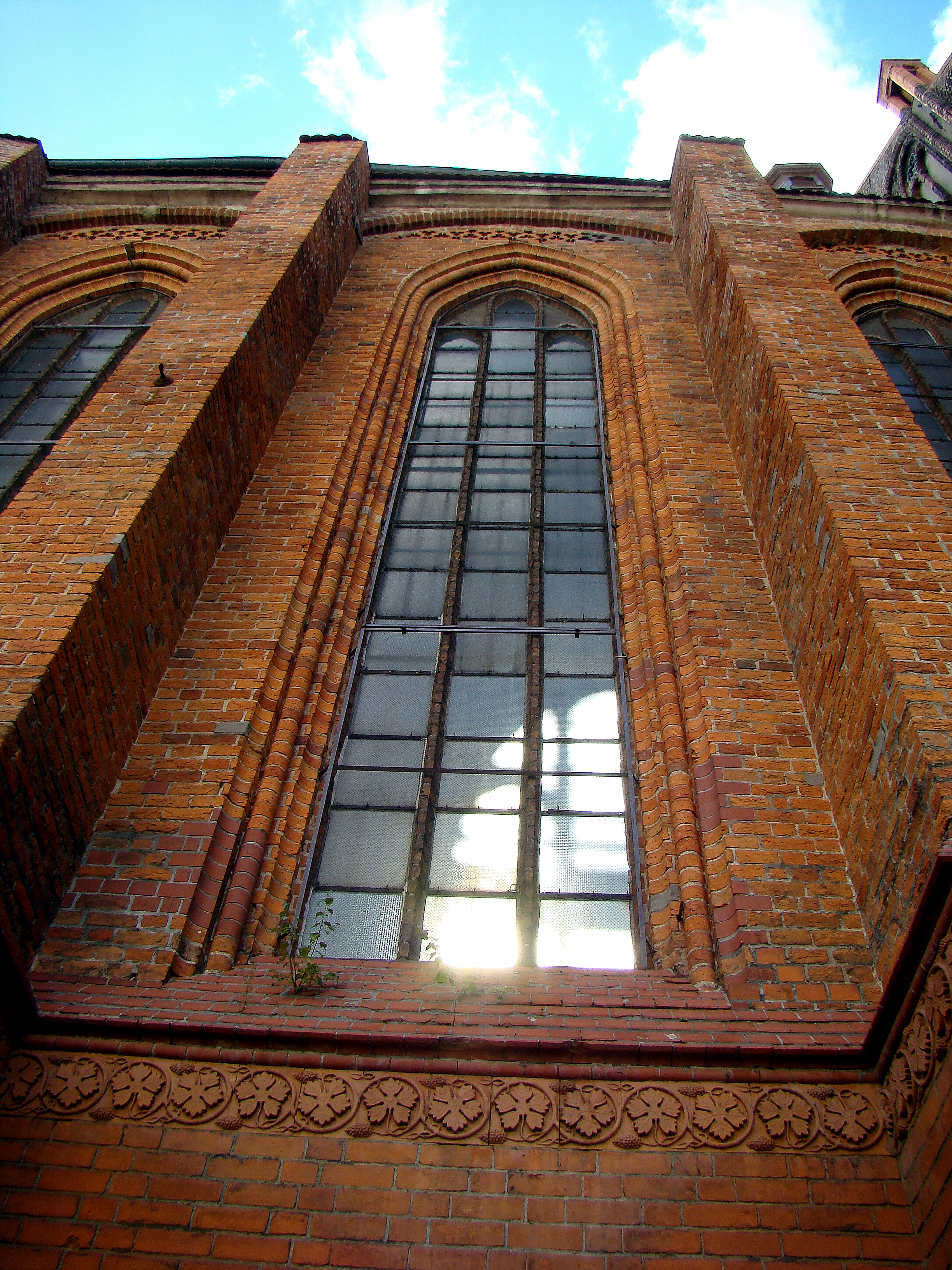 St. John the Evangelist Church, Szczecin, Poland